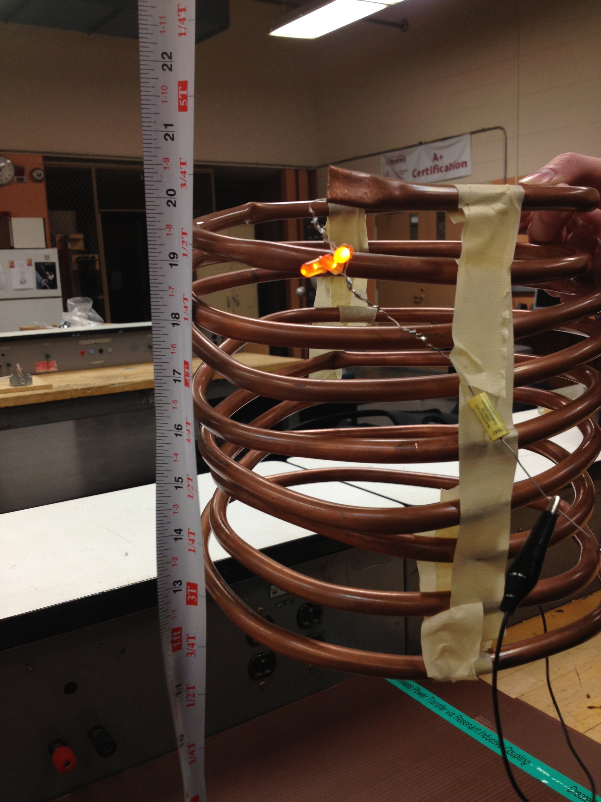 This is a picture demonstating the efficient transfer of power via resonant inductive coupling over a distance of thirteen inches. This experiment was conducted by CT&T Laboratories, in December of 2012.